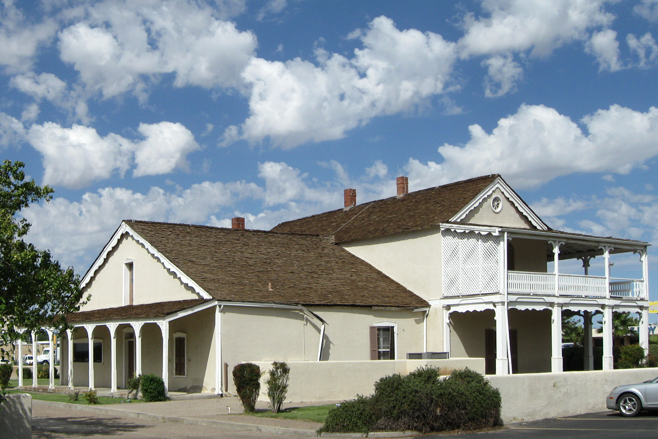 Nestor Armijo House, located at 150 E. Lohman (foot of Church Street) in Las Cruces, New Mexico). Listed on the National Register of Historic Places, NRIS Item No. 76001195.